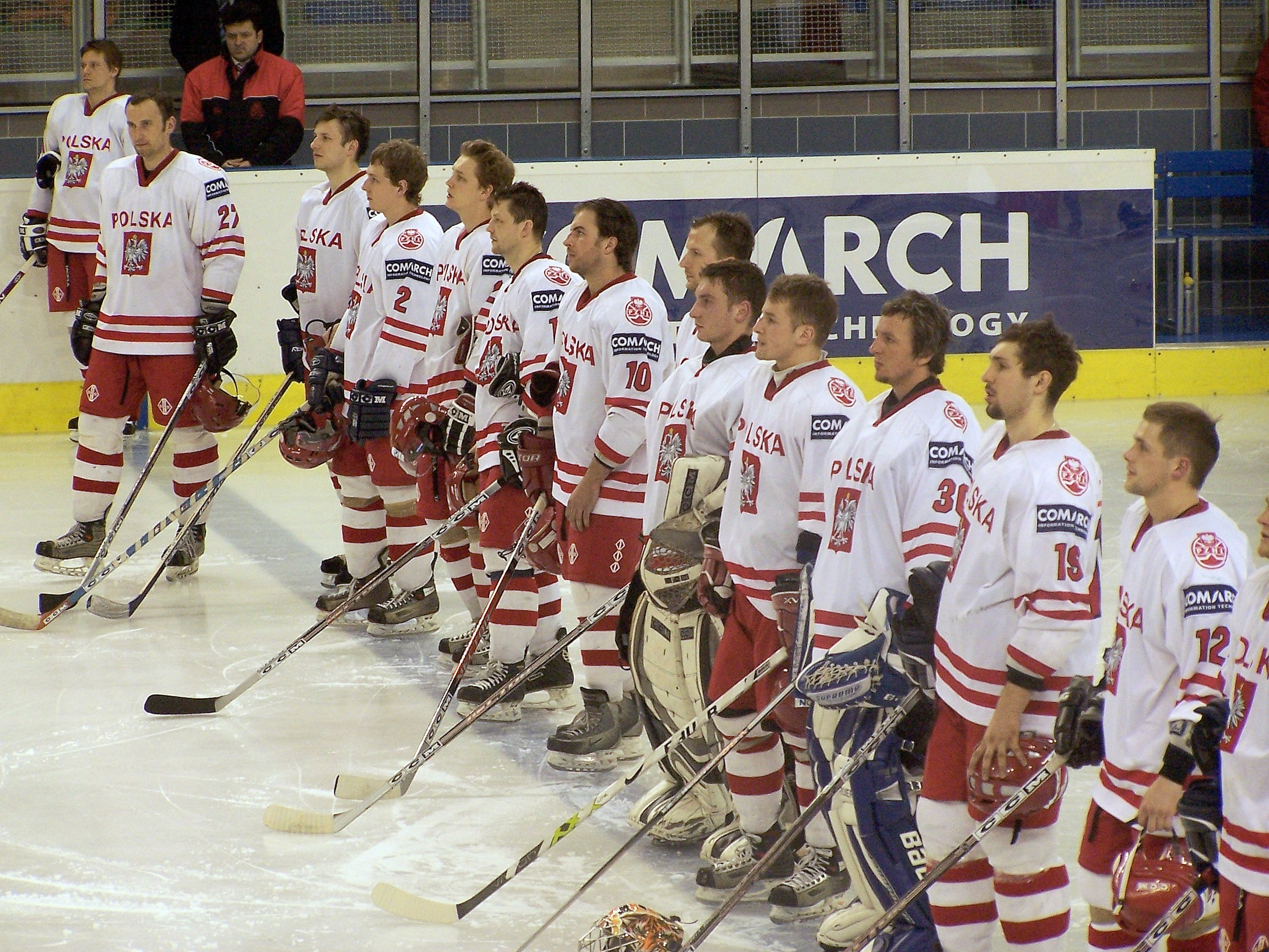 Polish national team Arena Sanok April 12, 2006 (before match vs. Hungary)